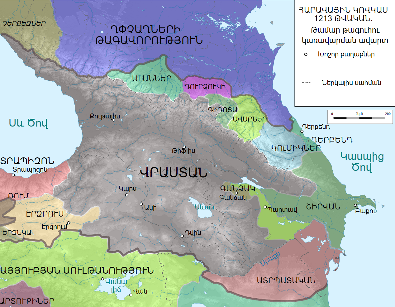 Caucasus 1213 AD map